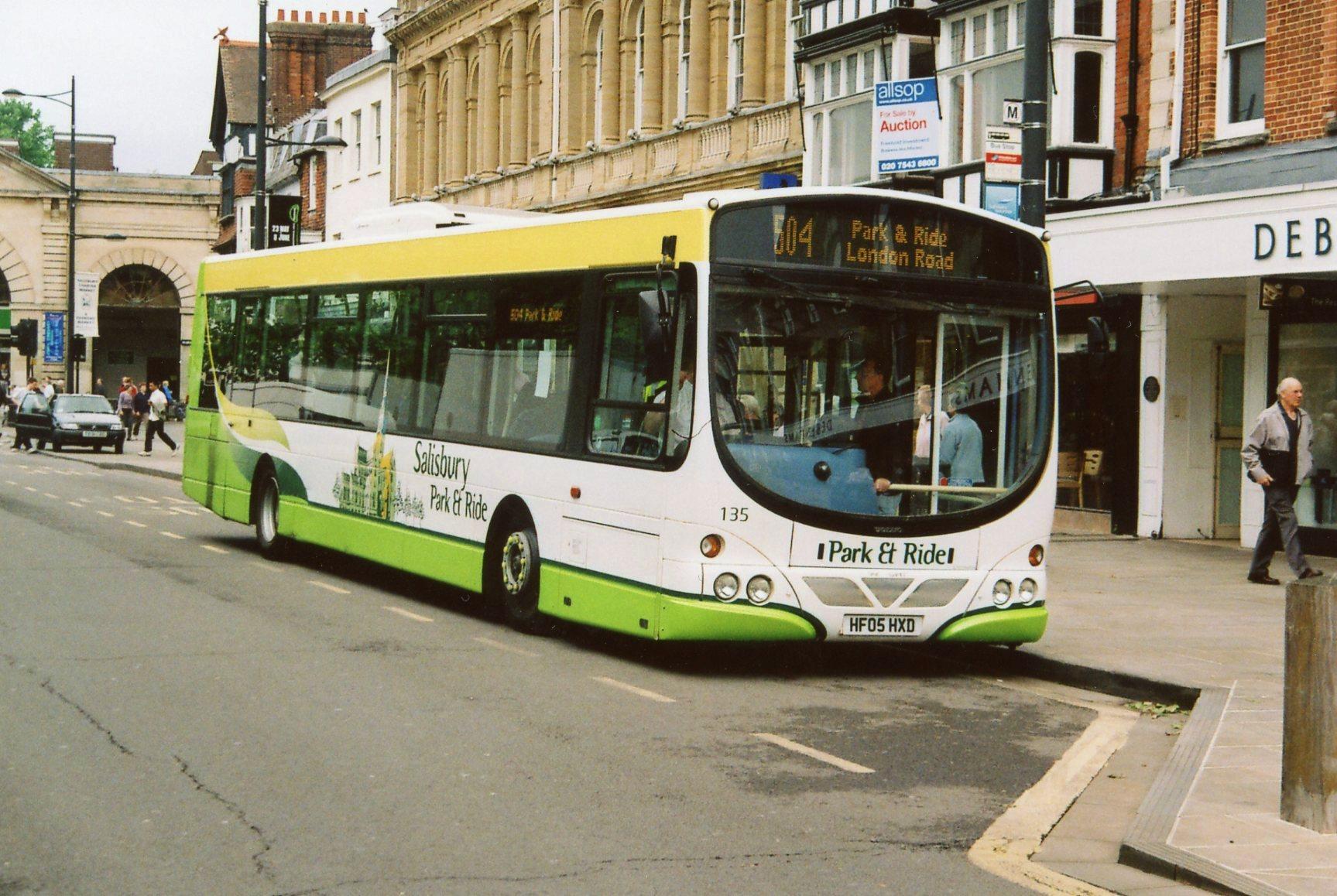 Wilts & Dorset 135 (HF05 HXD), a Volvo B7RLE/Wright Eclipse Urban, in Blue Boar Row, Salisbury, on park and ride route 504, during May 2008.